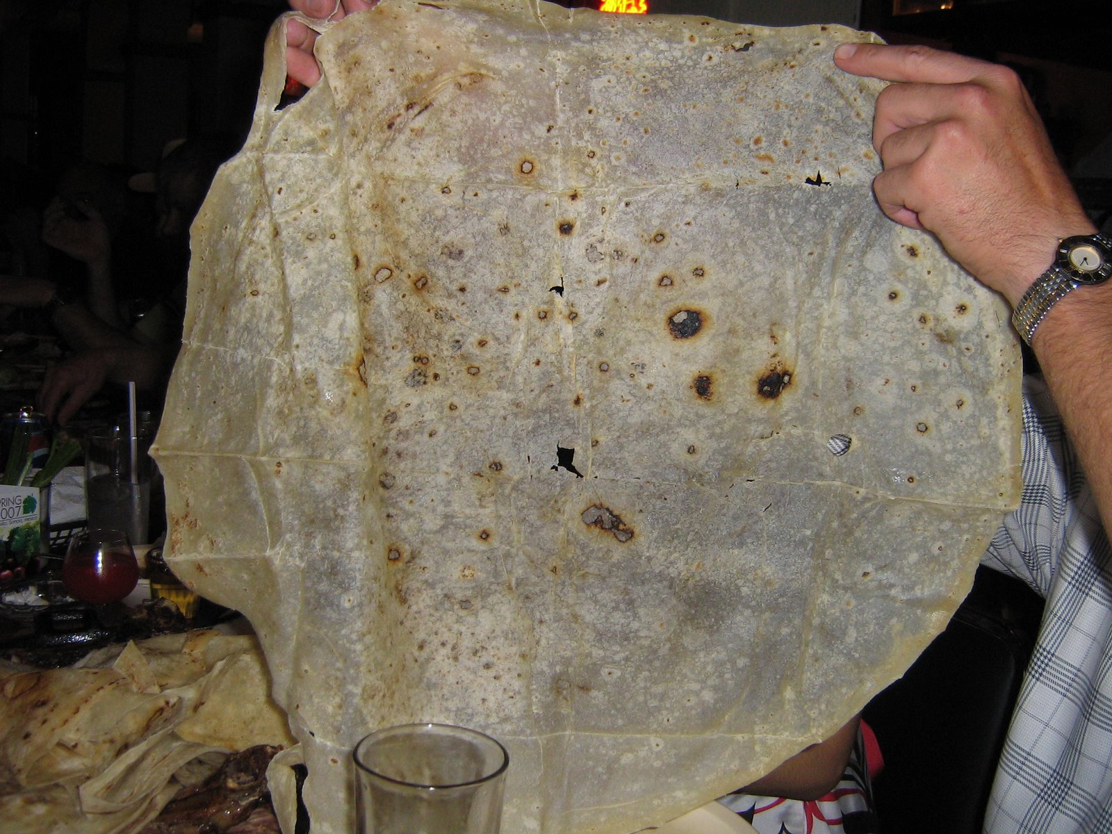 Tortilla Sobaquera made large and with flour...